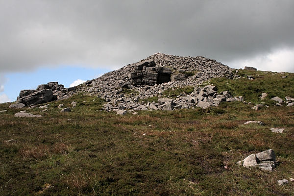 Slievenamon Summit Cairn Summit Cairn on Slievenamon (Slieve na mBan)where, according to legend, Fionn Mac Cumhail attempted to enter the 'otherworld' and in doing so caught his thumb in the closing door, the result being the 'thumb of knowledge'!